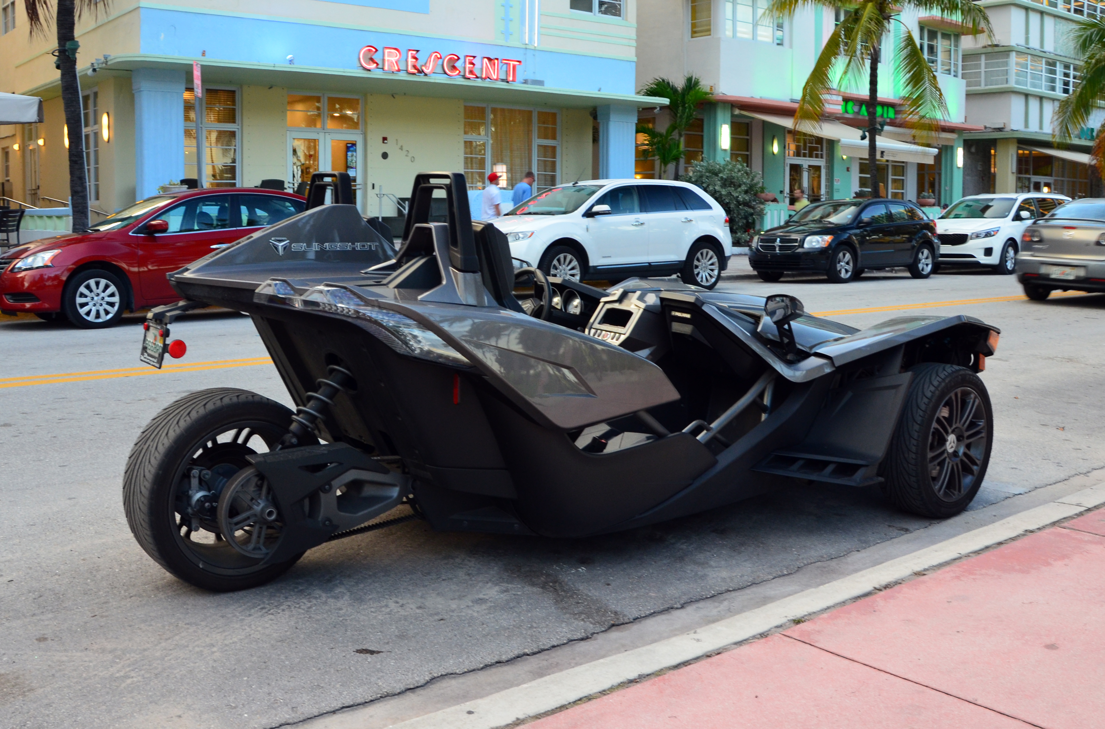 Reverse trike Polaris Slingshot on Ocean Drive (Miami Beach, Florida).